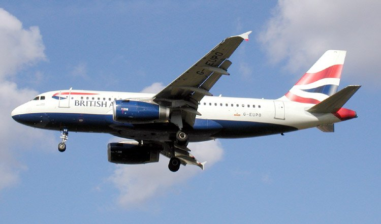 Airbus A319-100 of British Airways (G-EUPO) on the approach to London (Heathrow) Airport.